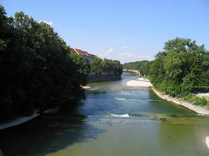 Isar River at Munich City, Germany